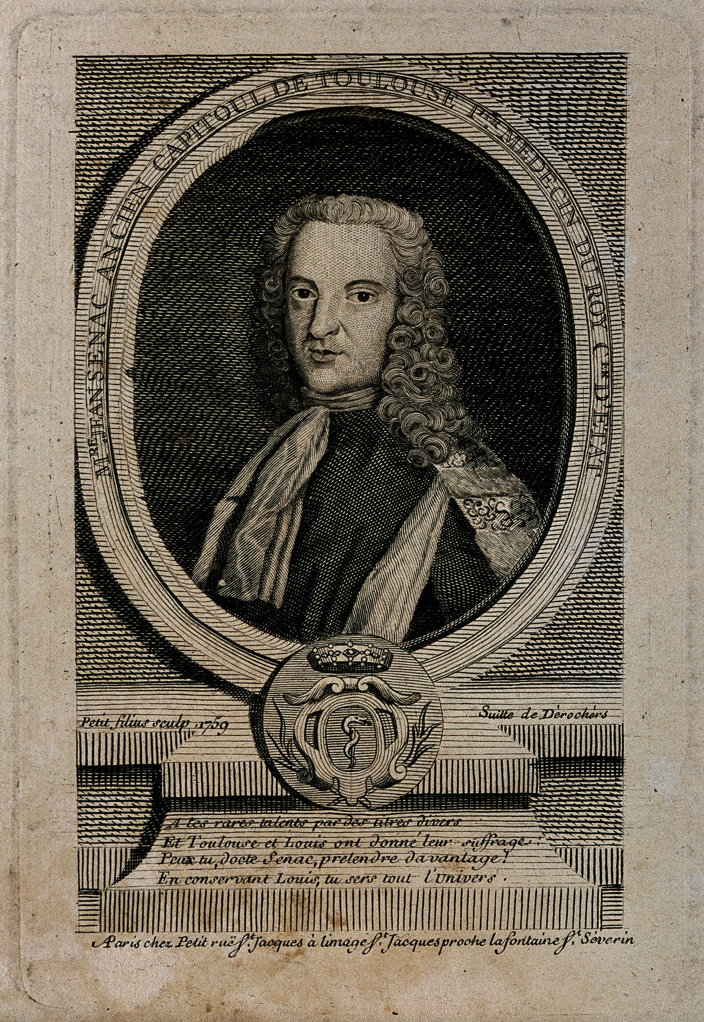 Jean Baptiste de Senac. Line engraving by Petit, junior, 1759, after Desrochers. Iconographic Collections Keywords: portrait prints; engravings; Jean Baptiste de Senac